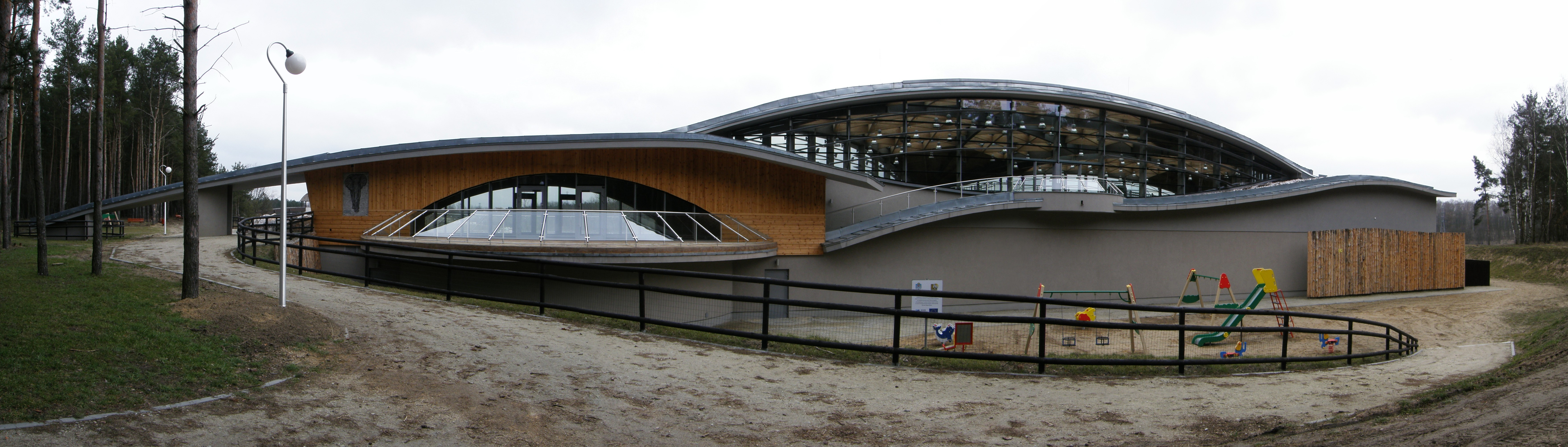 Run for elephants in New Zoo in Poznań